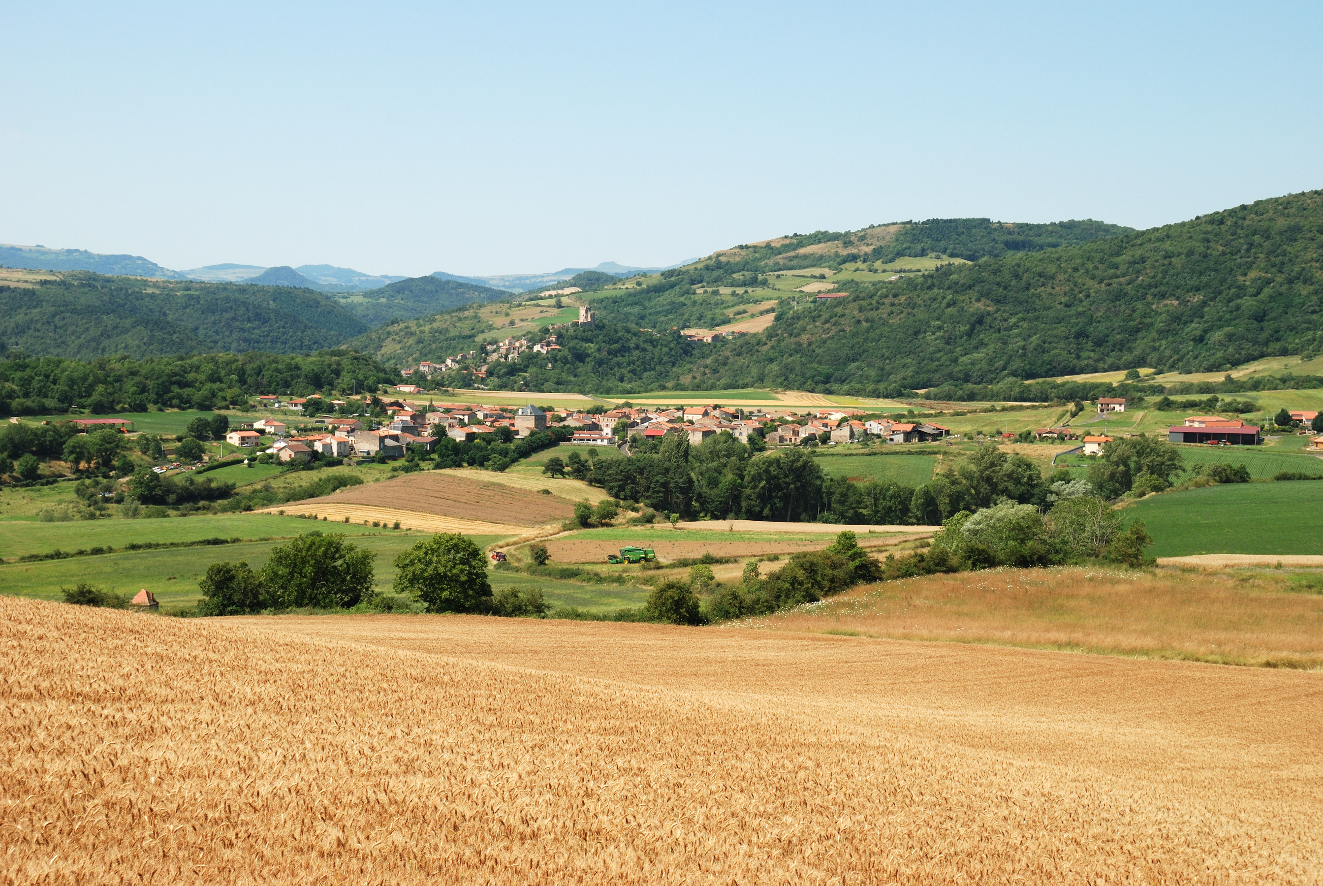 View of the villages of Saint-Julien (the first one) and Montaigut-le-Blanc (Puy-de-Dôme, France). Translations in other languages are welcome.